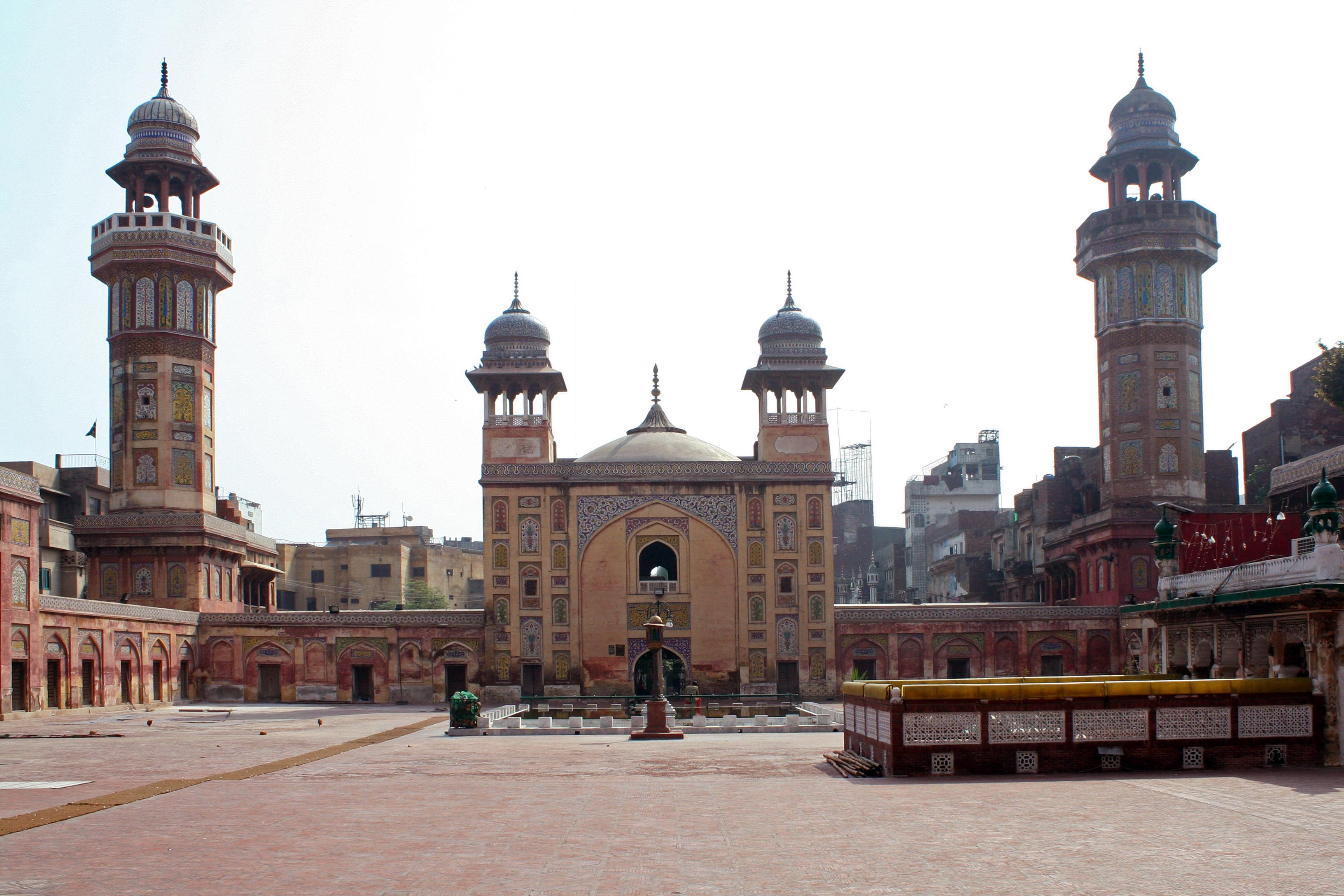 Wazir Khan Mosque This is a photo of a monument in Pakistan identified as the PB-100